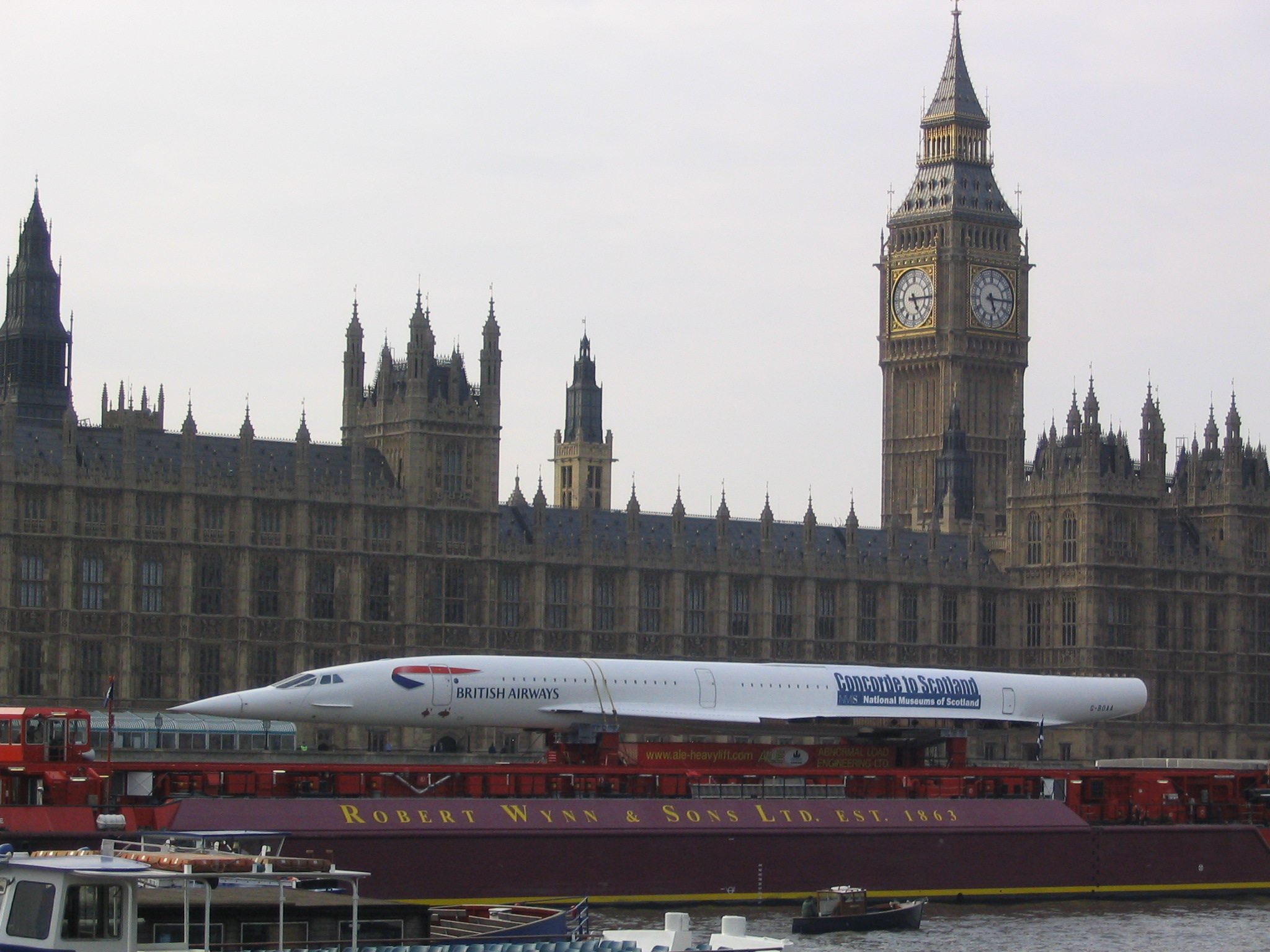 Partially dismantled Concorde 206 G-BOAA being transported by barge down the River Thames, en route to the Museum of Flight, East Lothian, Scotland, UK.